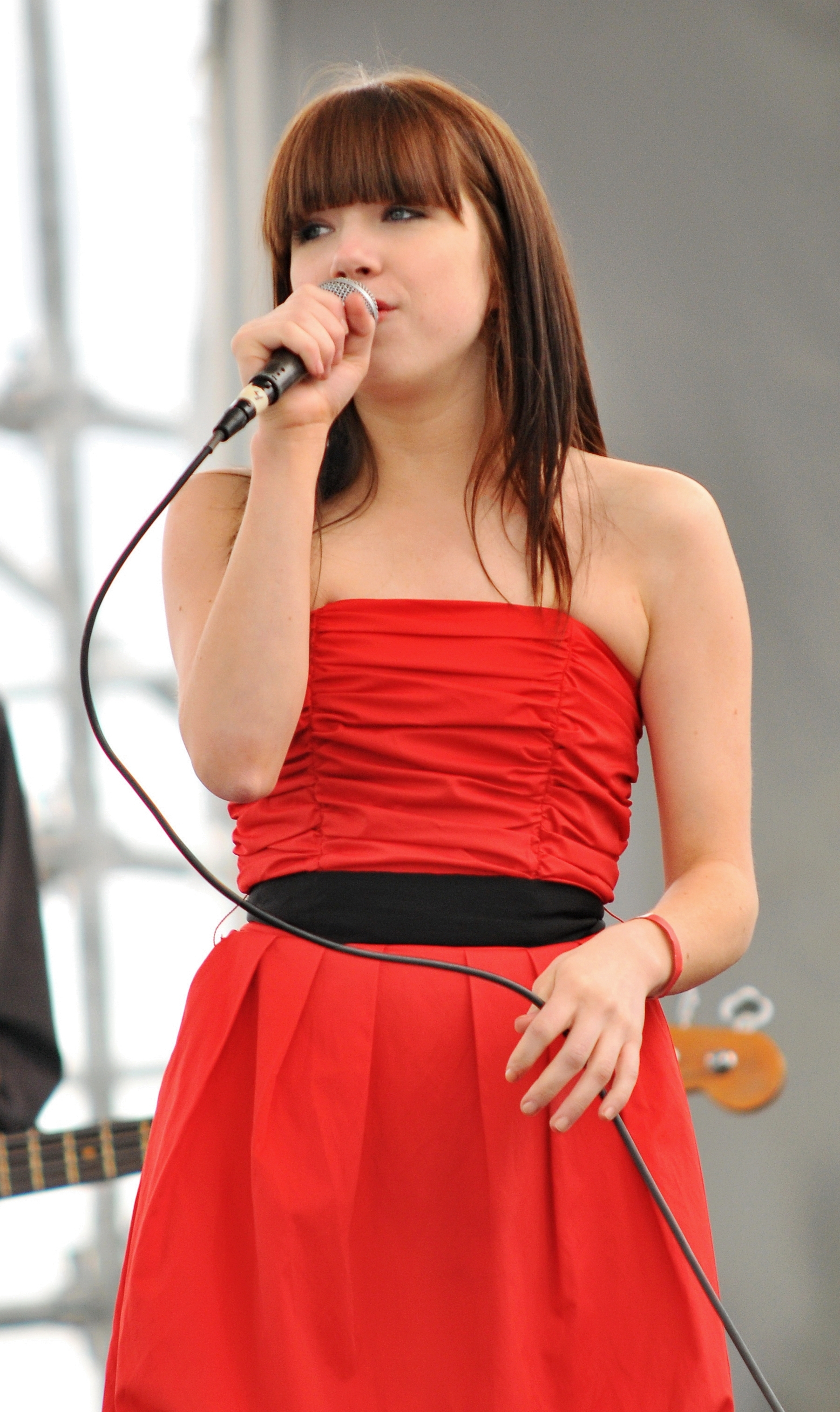 View Large or Original. Carly Rae Jepsen at Canada Place, 2010 Canada Day Celebration View On Black